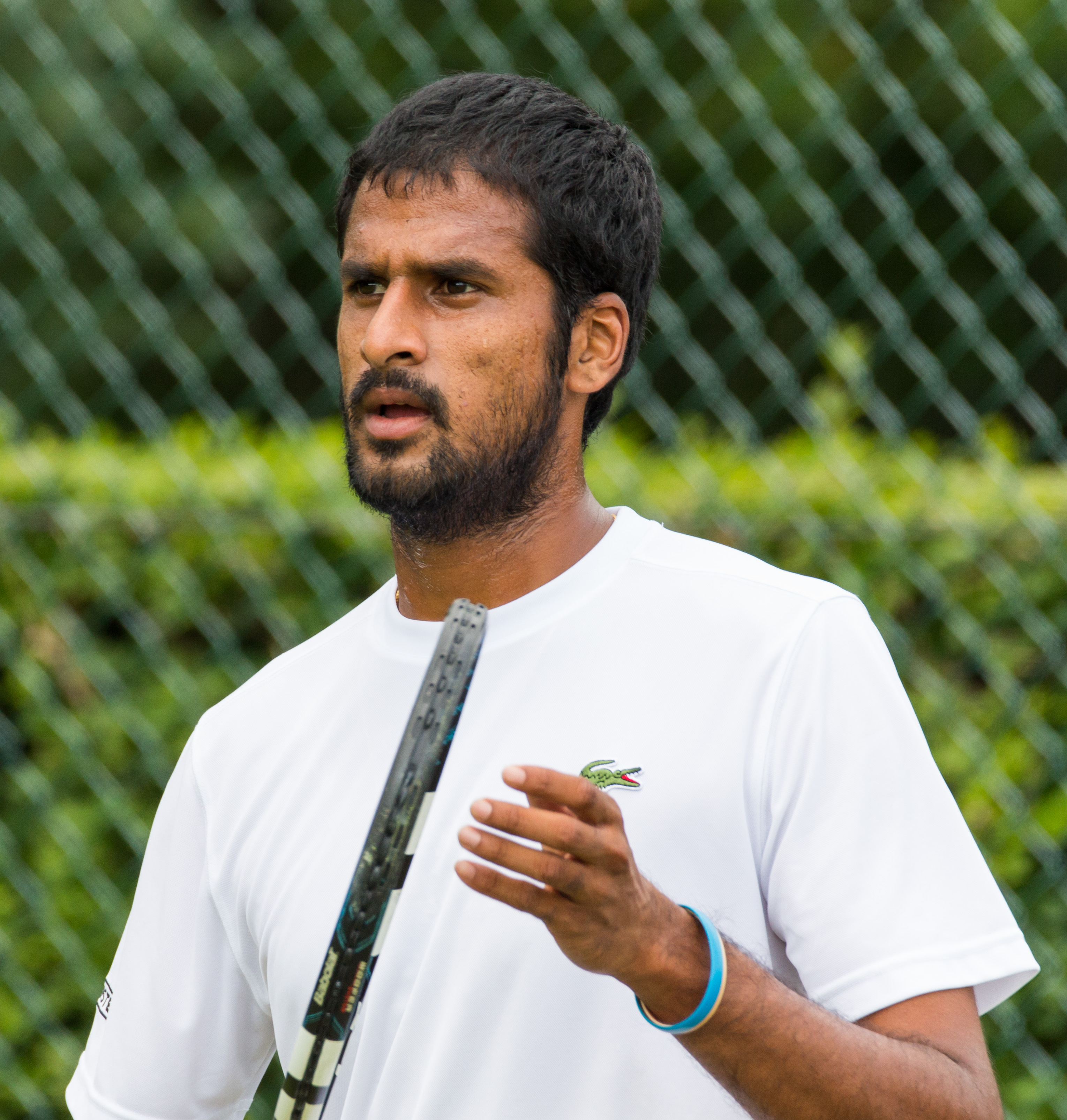 Saketh Myneni competing in the second round of the 2015 Wimbledon Qualifying Tournament at the Bank of England Sports Grounds in Roehampton, England. The winners of three rounds of competition qualify for the main draw of Wimbledon the following week.